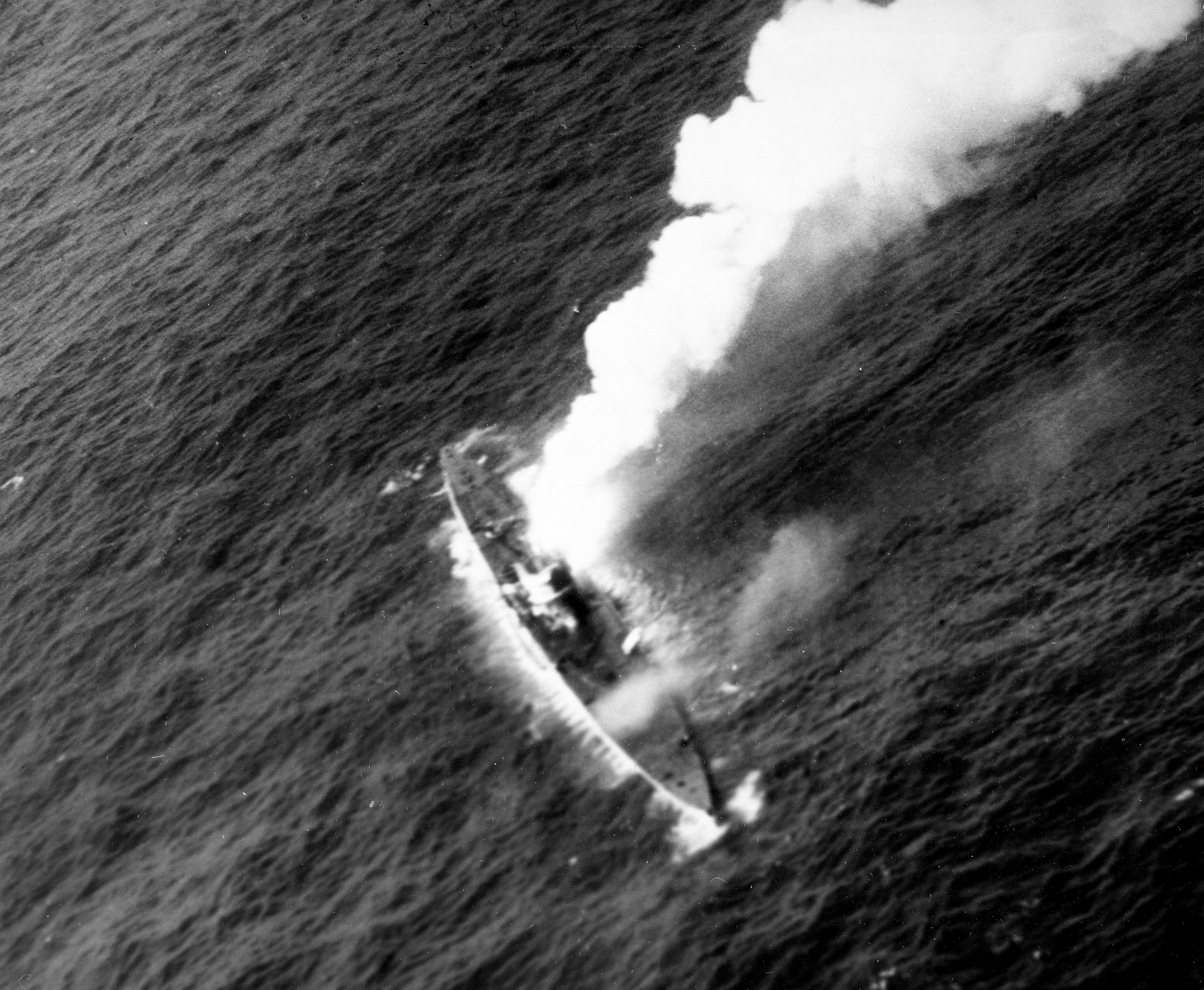 The German submarine U-515 afire and sinking after having been attacked by the U.S. Navy destroyer escorts USS Pope (DE-134), USS Chatelain (DE-149), USS Pillsbury (DE-133) and USS Flaherty (DE-135) on 9 April 1944.